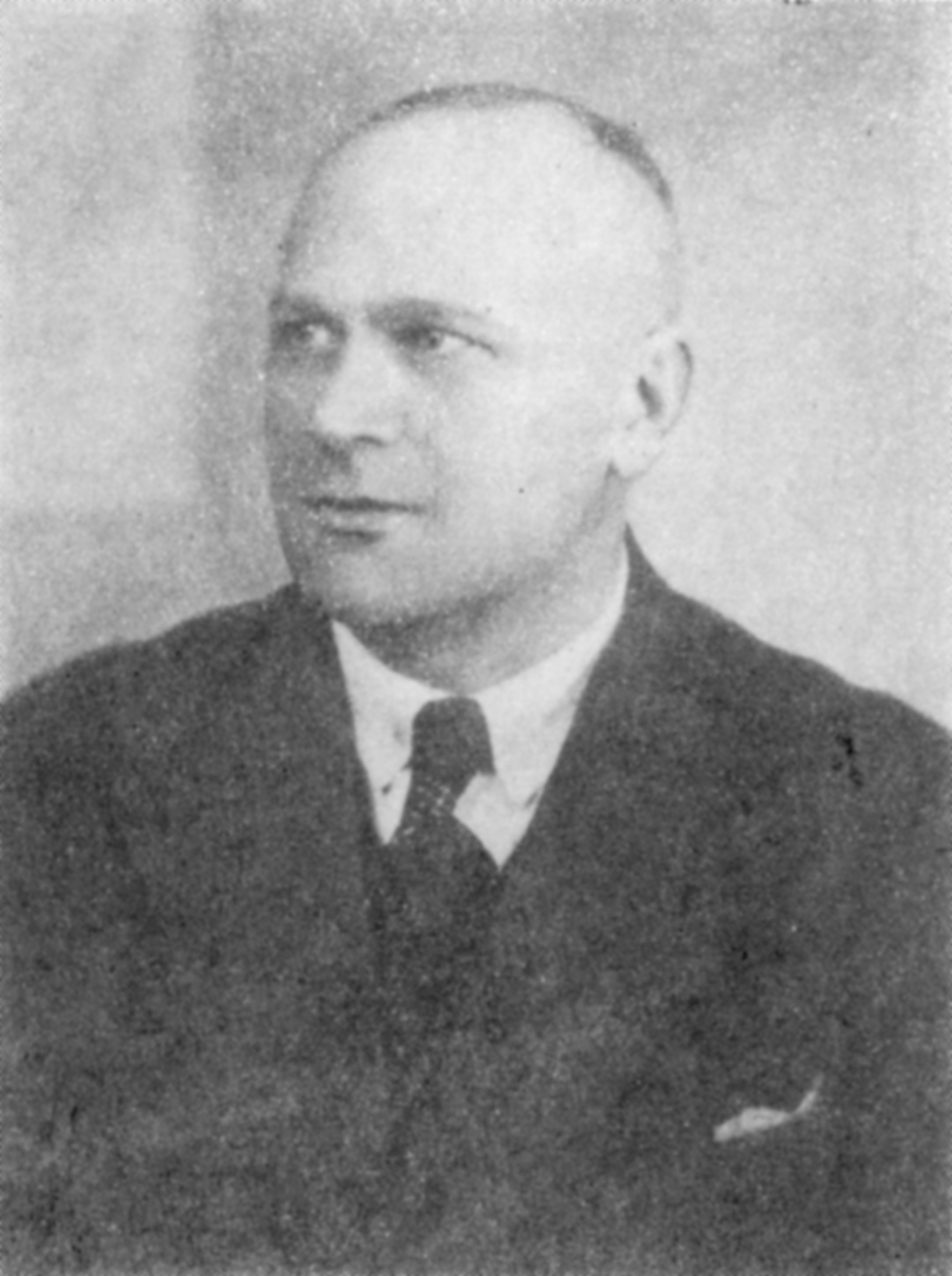 Piotr Miętkiewicz (1891–1957), the fourth director of Polish High School in Bytom.